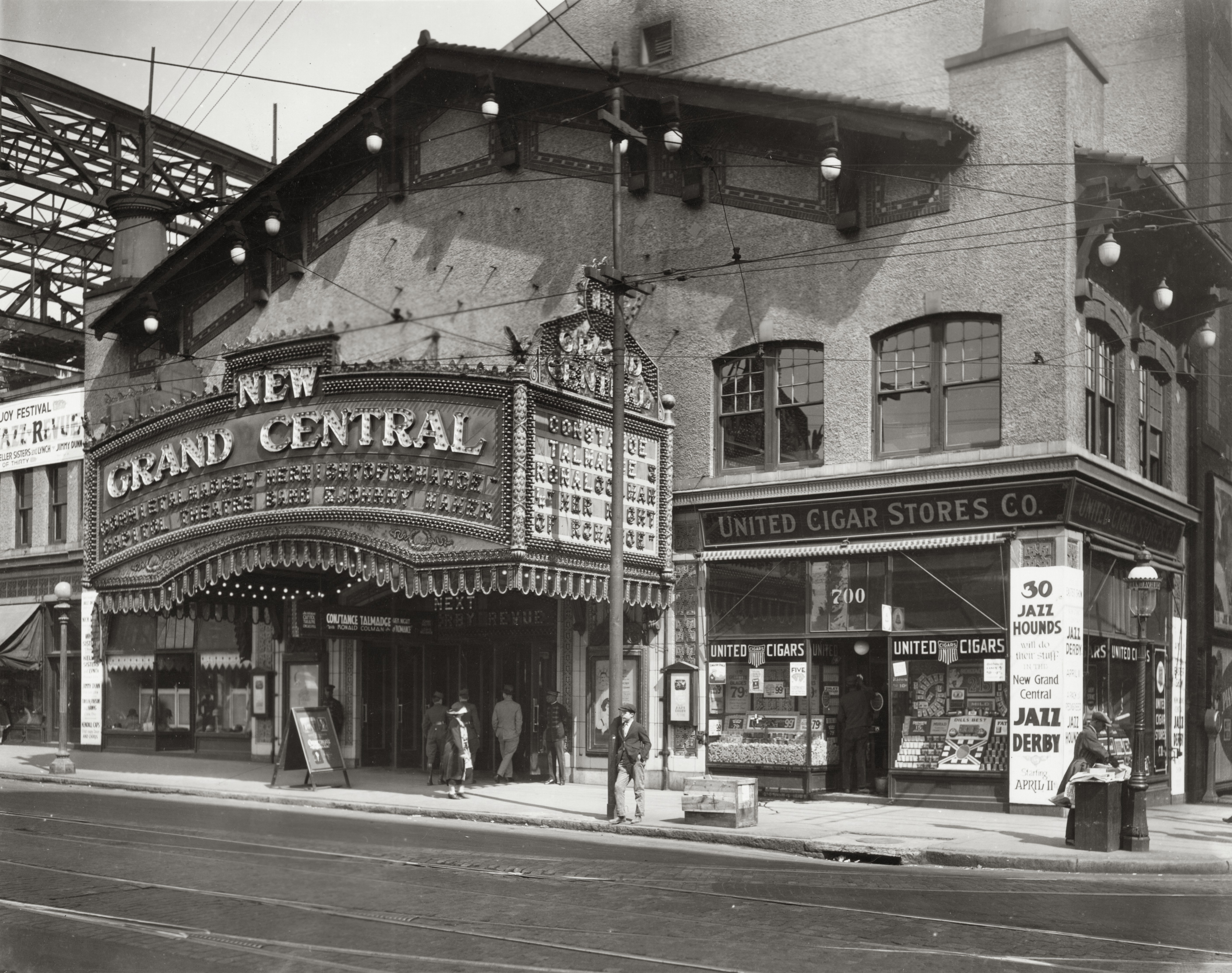 New Grand Central Theater, Grand Boulevard and Lucas Avenue. Photograph by W.C. Persons, 1925. Missouri Historical Society Photographs and Prints Collections. PB 39. Scan © 2006, Missouri Historical Society.